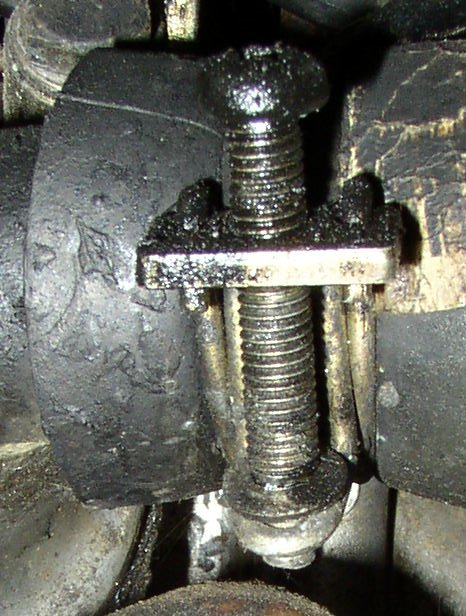 A dirty wire-type hose clamp on a car's radiator hose. I took this picture myself, and am releasing it under the GFDL.